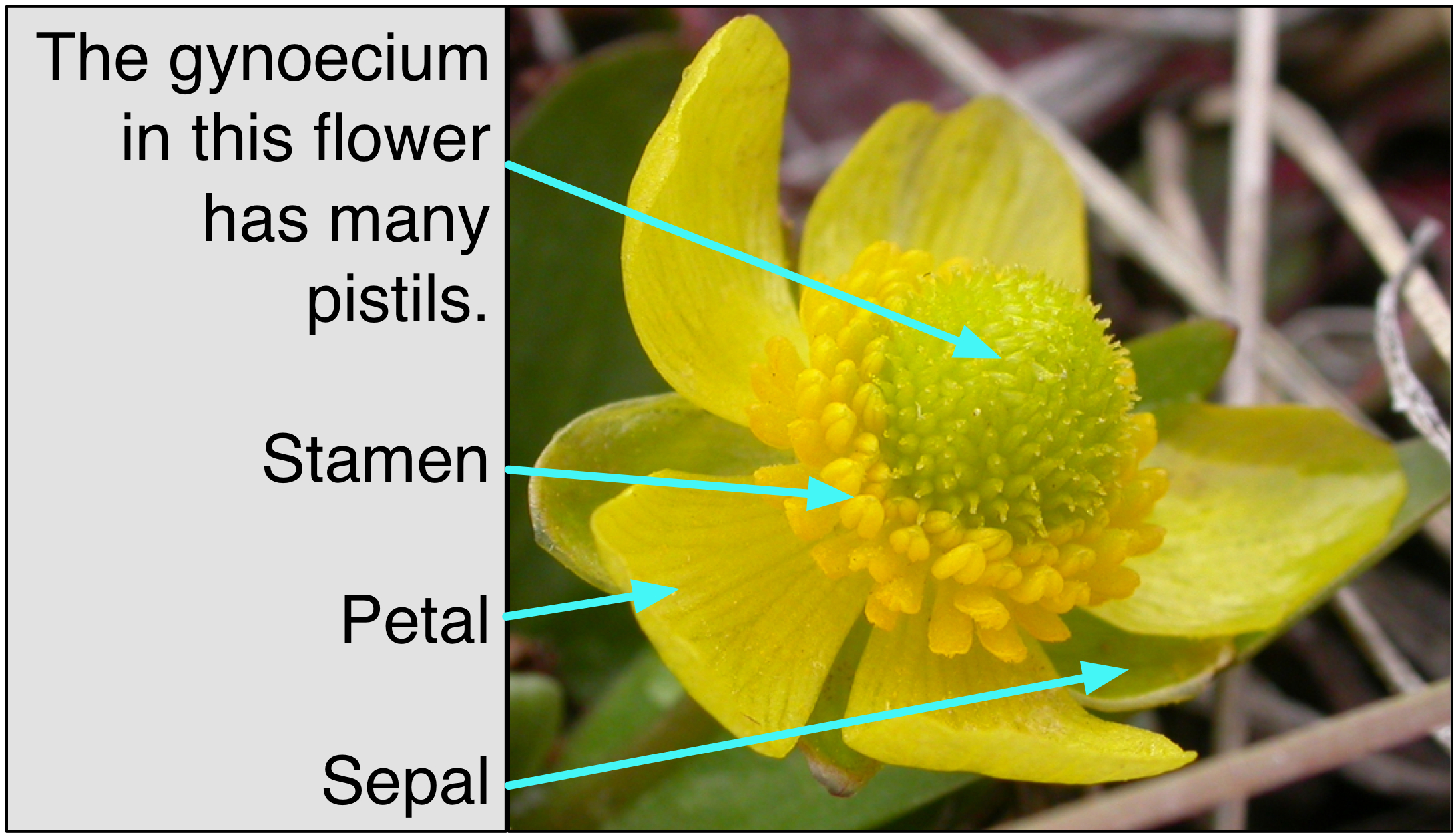 Diagram made for the Gynoecium page on Simple English Wikipedia